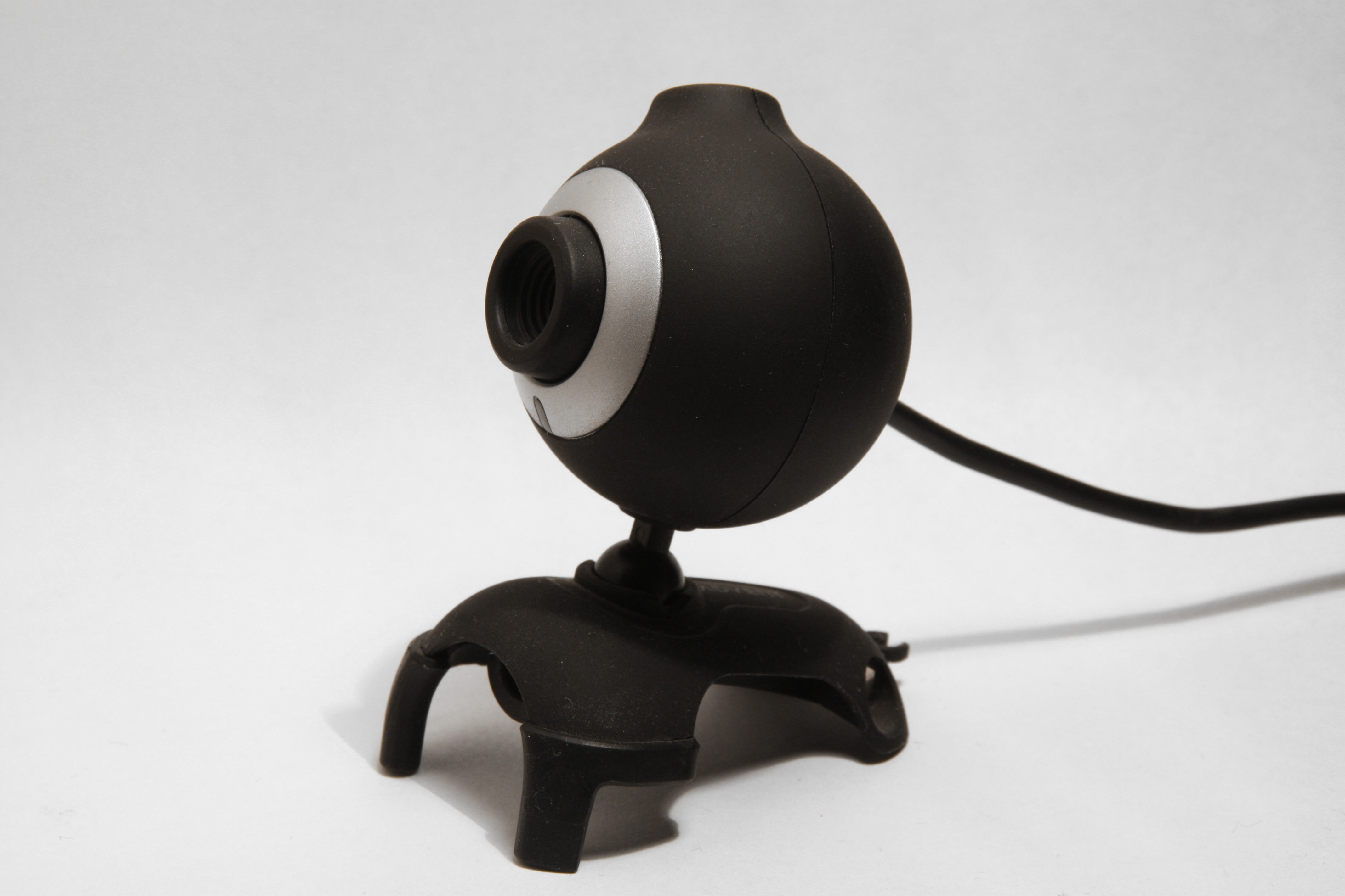 A typical webcam, purchased in 2008.